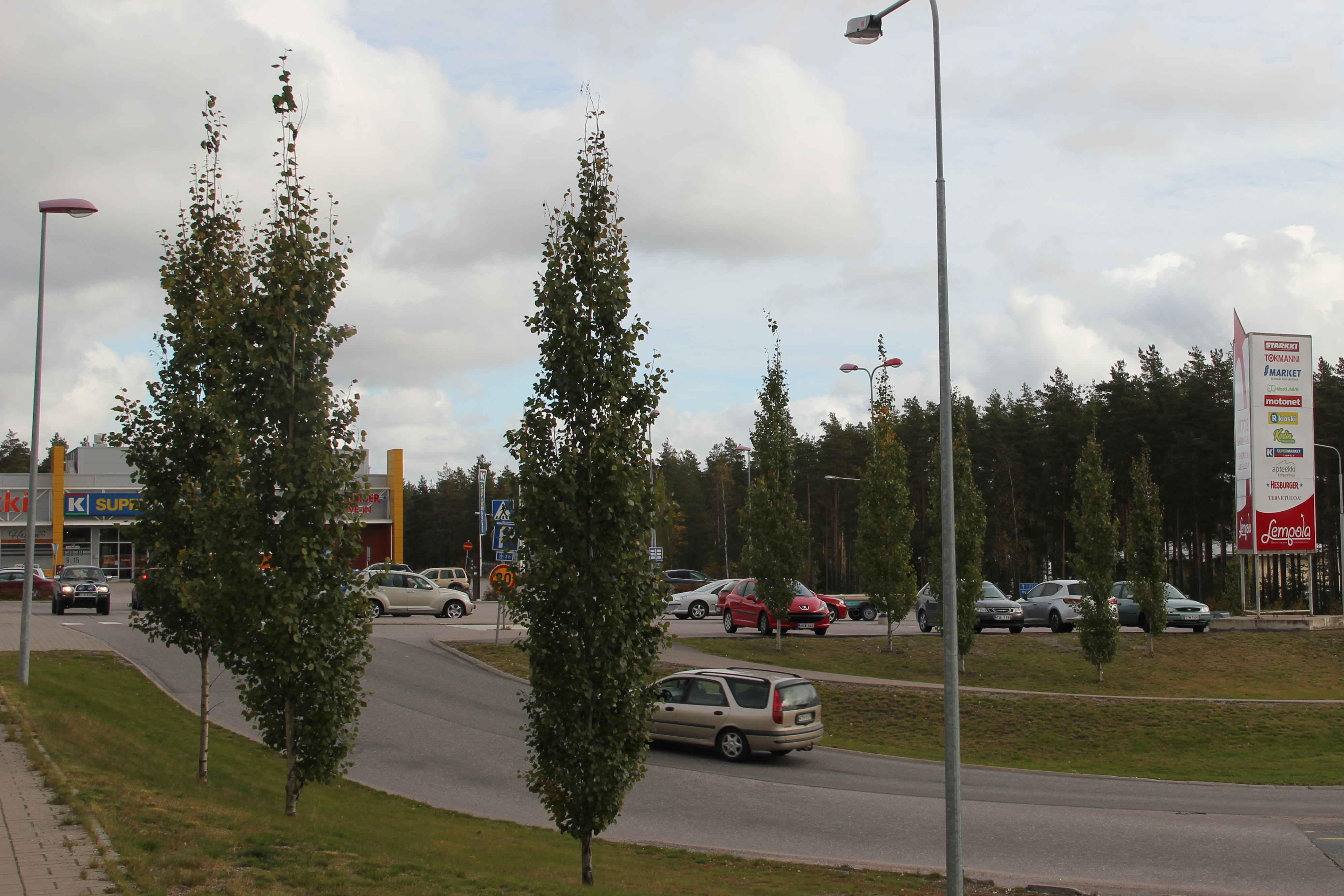 Mall in Lempola, Lohja, Finland. September 2016